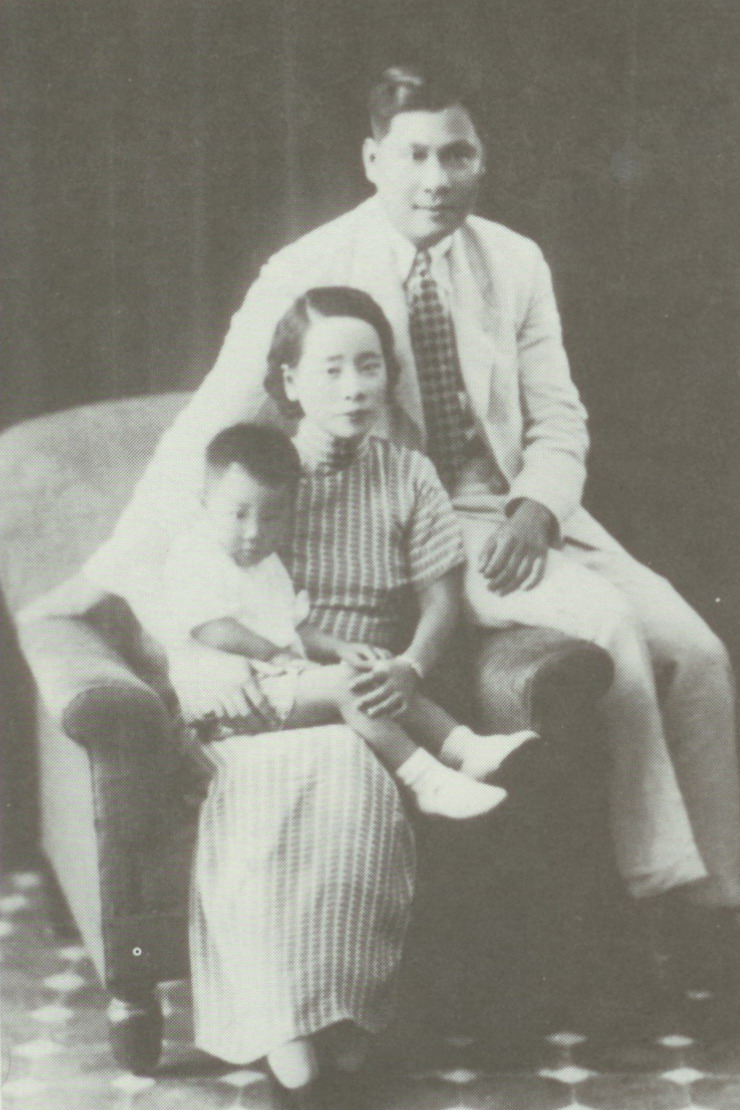 Liao Chong Zhen with wife and son